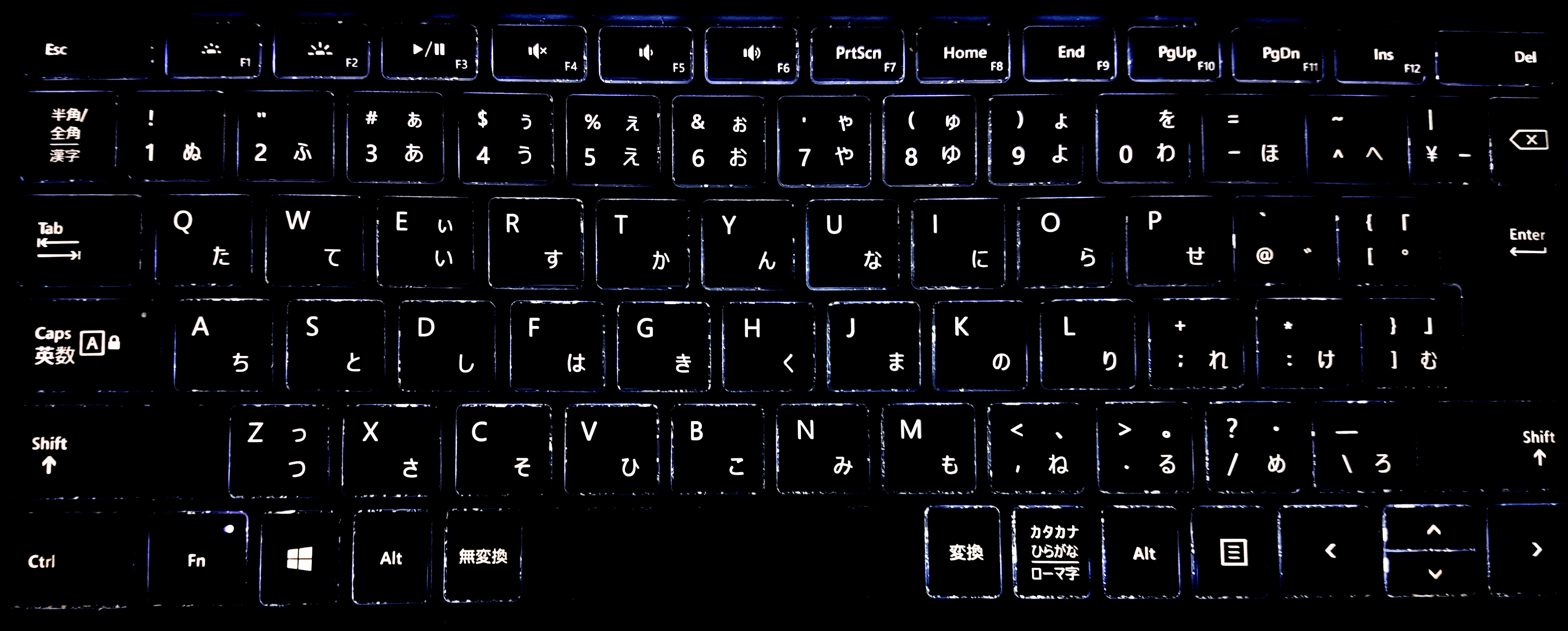 A Surface Type Cover glows in the dark at night, showing the JIS keyboard layout.